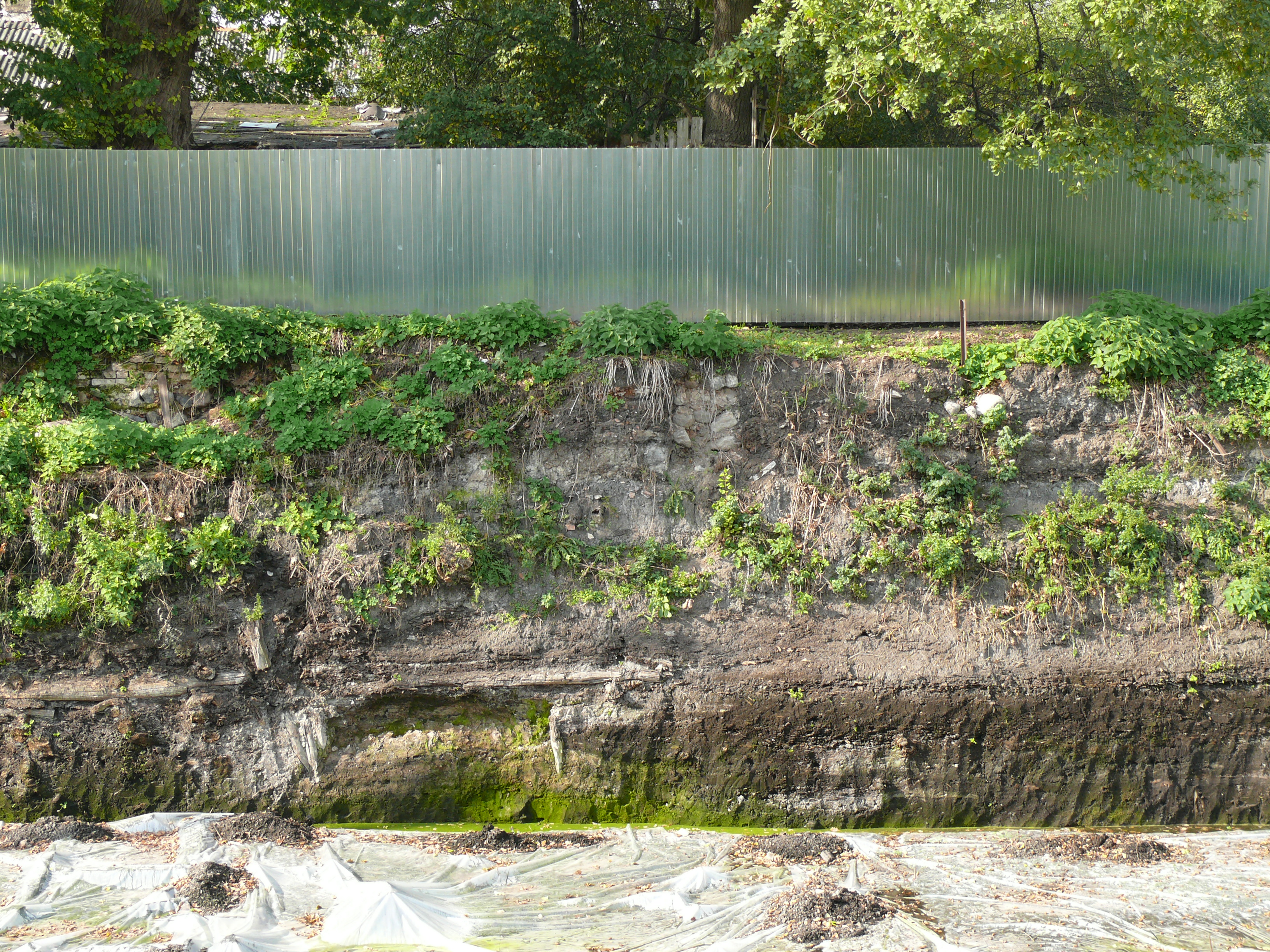 The Troitsky raskop (excavation) in Veliky Novgorod, Russia